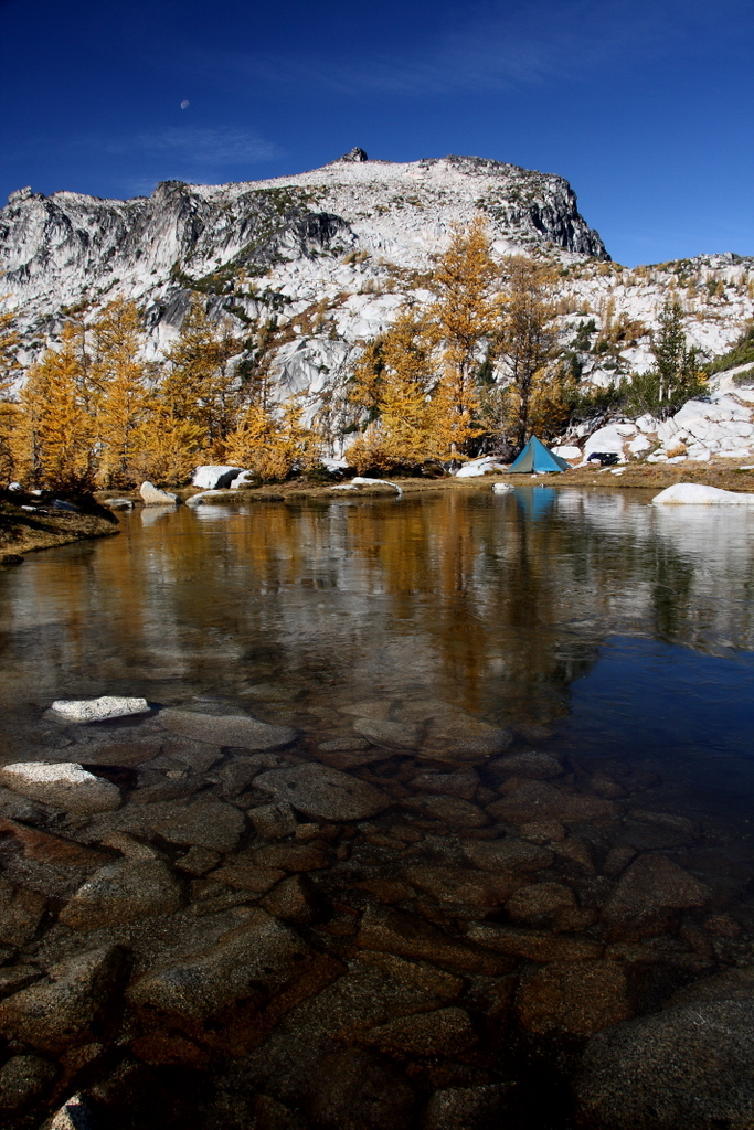 Gnome Tarn camp. Enchantment Lakes trip, October 17-19, 2008.